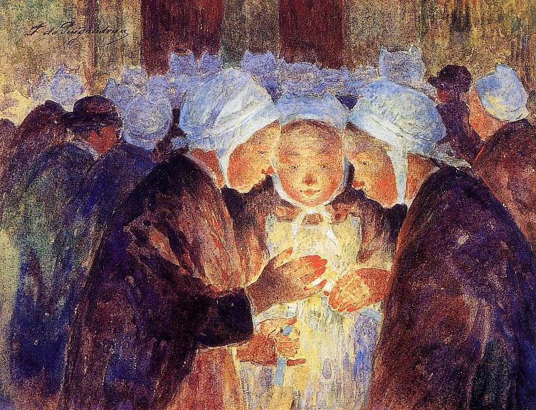 Oil painting reproduction of Ferdinand du Puigaudeau.